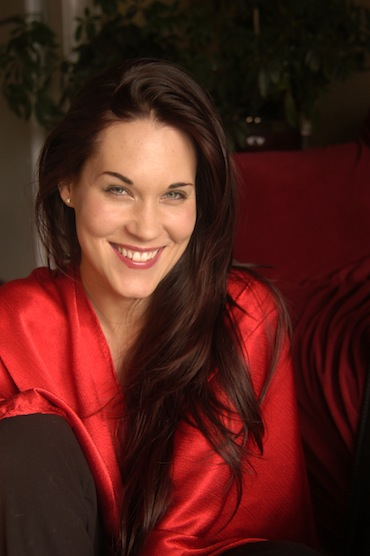 Portrait of Teal Swan from her blog.